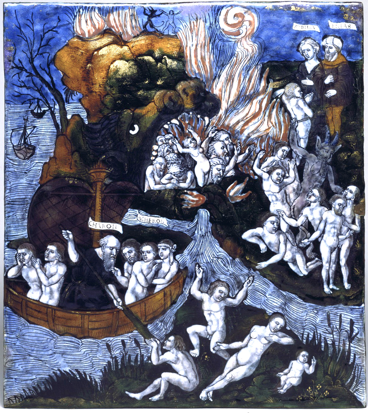 Over sixty plaques picturing scenes of the "Aeneid," the great epic poem by the Roman poet Virgil that recounts the wanderings of the trojan prince Aeneas are known. Seven are in the Walters collection. The series was probably commissioned to be set in the wainscoting of a small room, perhaps the study of a wealthy man with a classcial education. At the upper right of this plaque Aeneas waits with the Cumean Sibyl for Charon's barge, which will take him across the river Acheron to the entrance of the Underworld, where he will visit his father, Anchises. The mouth of Hell is represented in the gothic manner as the head of a monster.